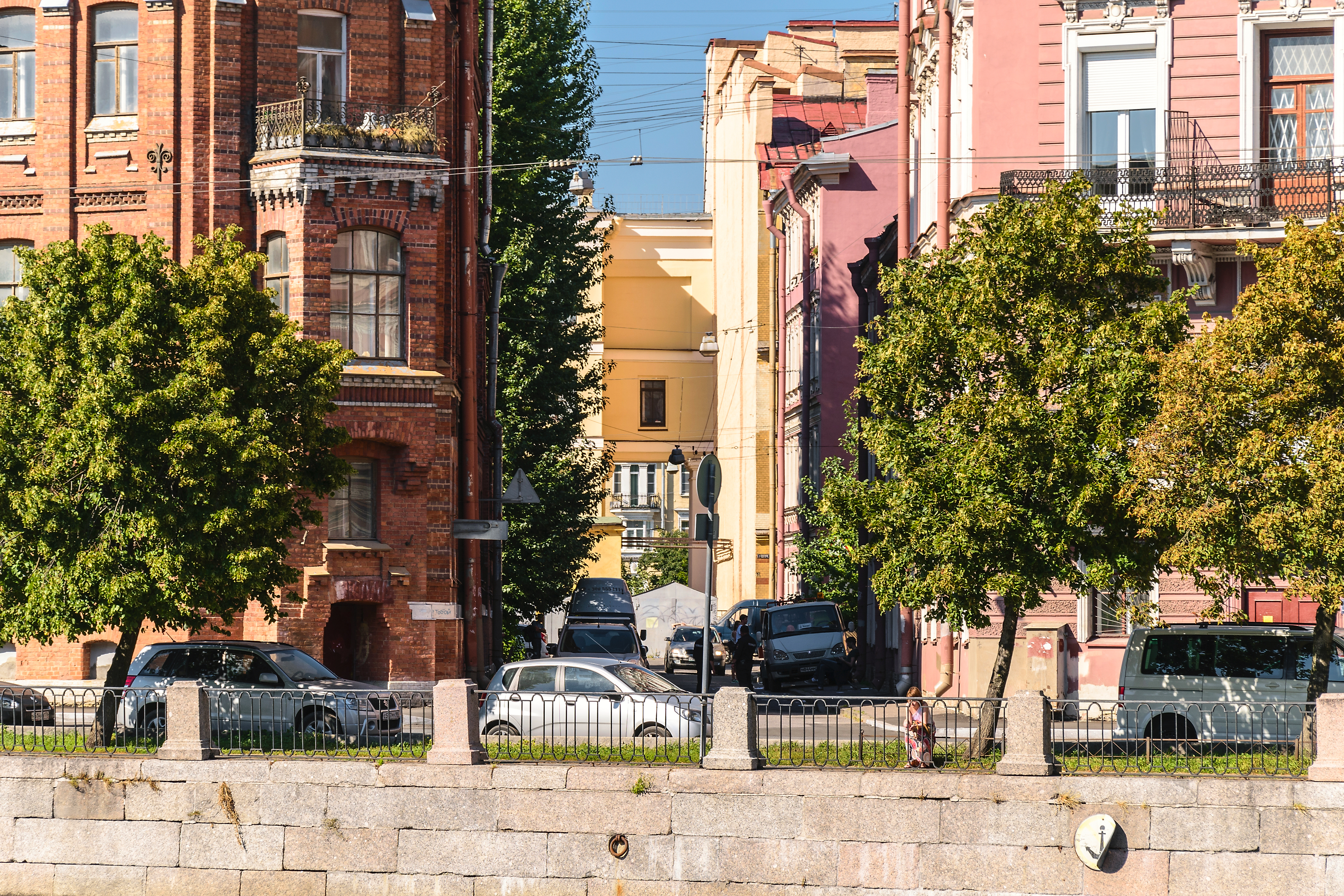 Kalinkin Lane in Saint Petersburg